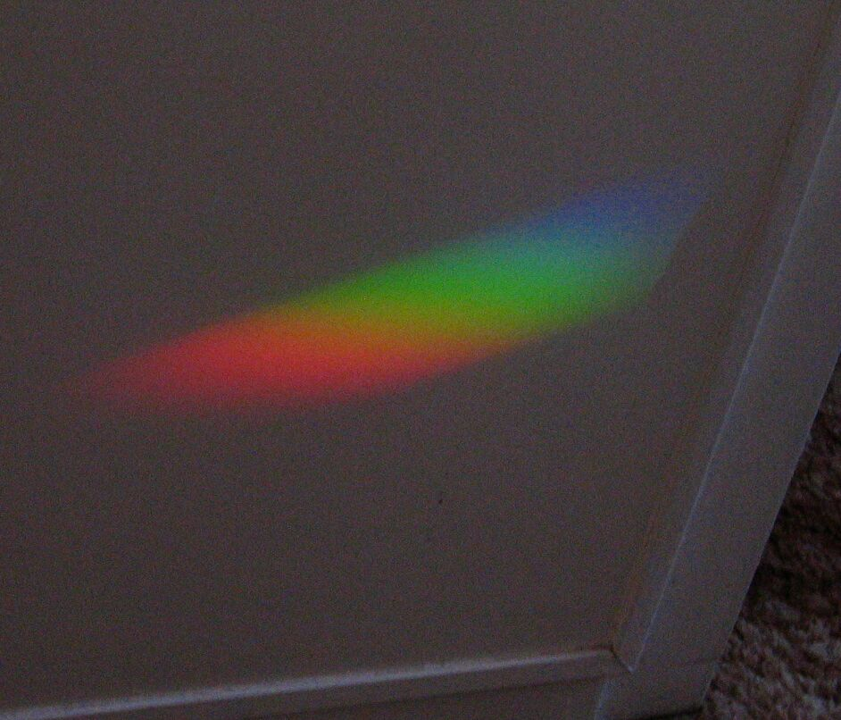 Spectrum created on a door by a prism, a faceted glass "crystal", hanging in a window.